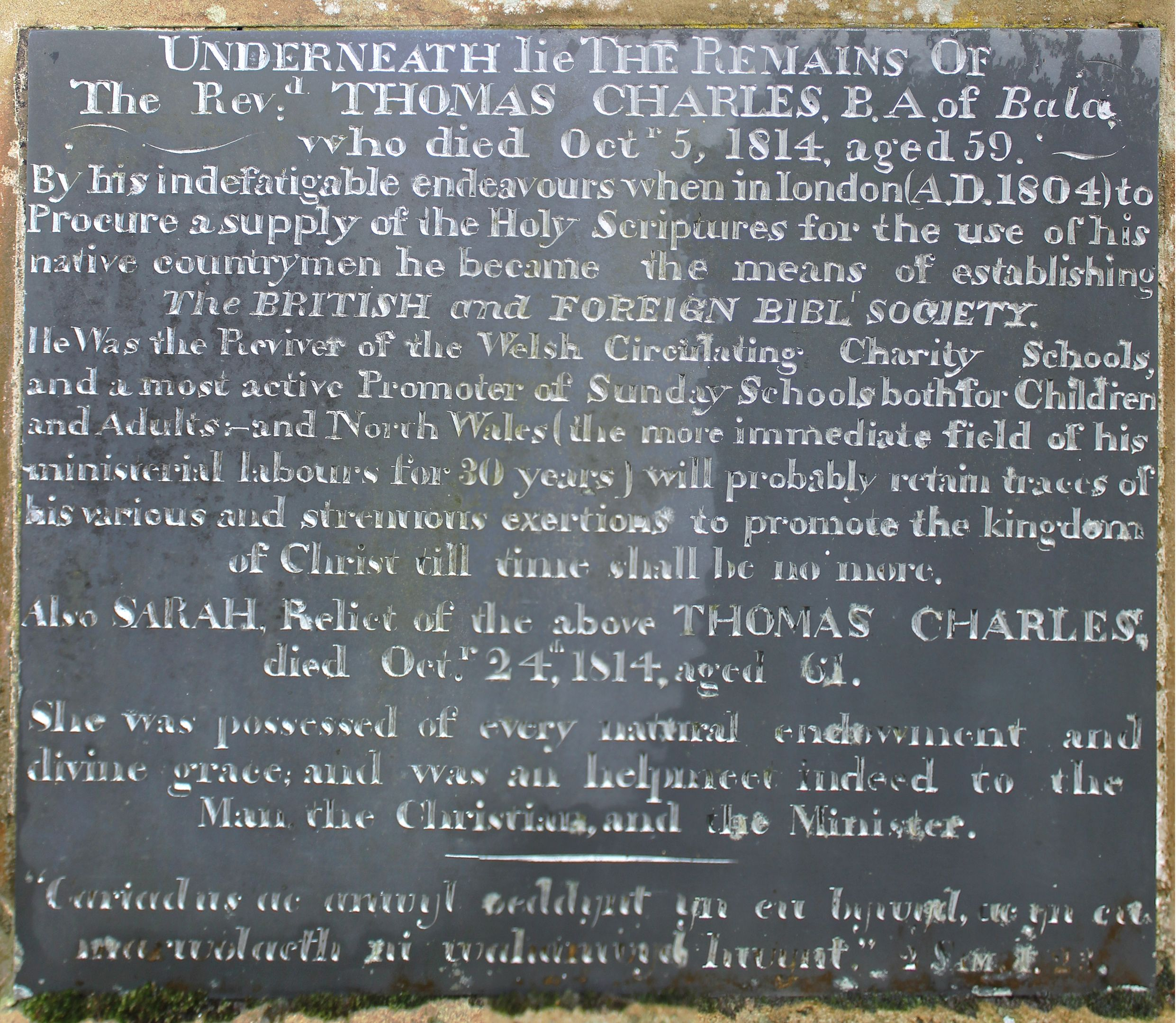 Grave of Thomas Charles. St Beuno's Church, Llanycil, Bala, Gwynedd, North Wales.